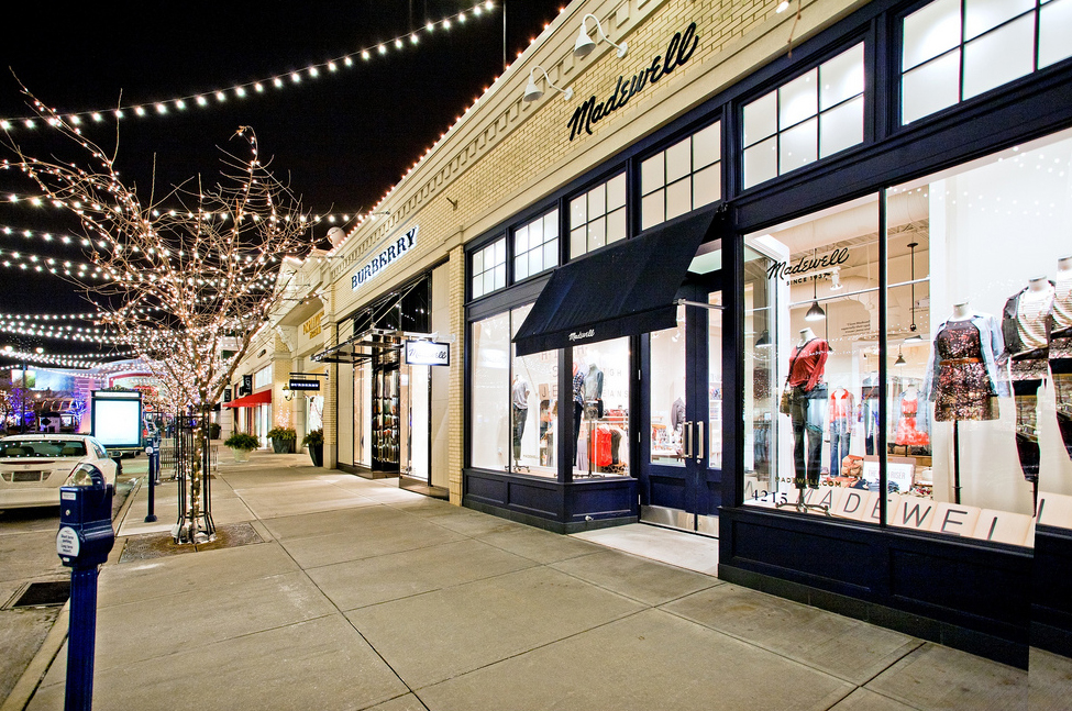 Madewell